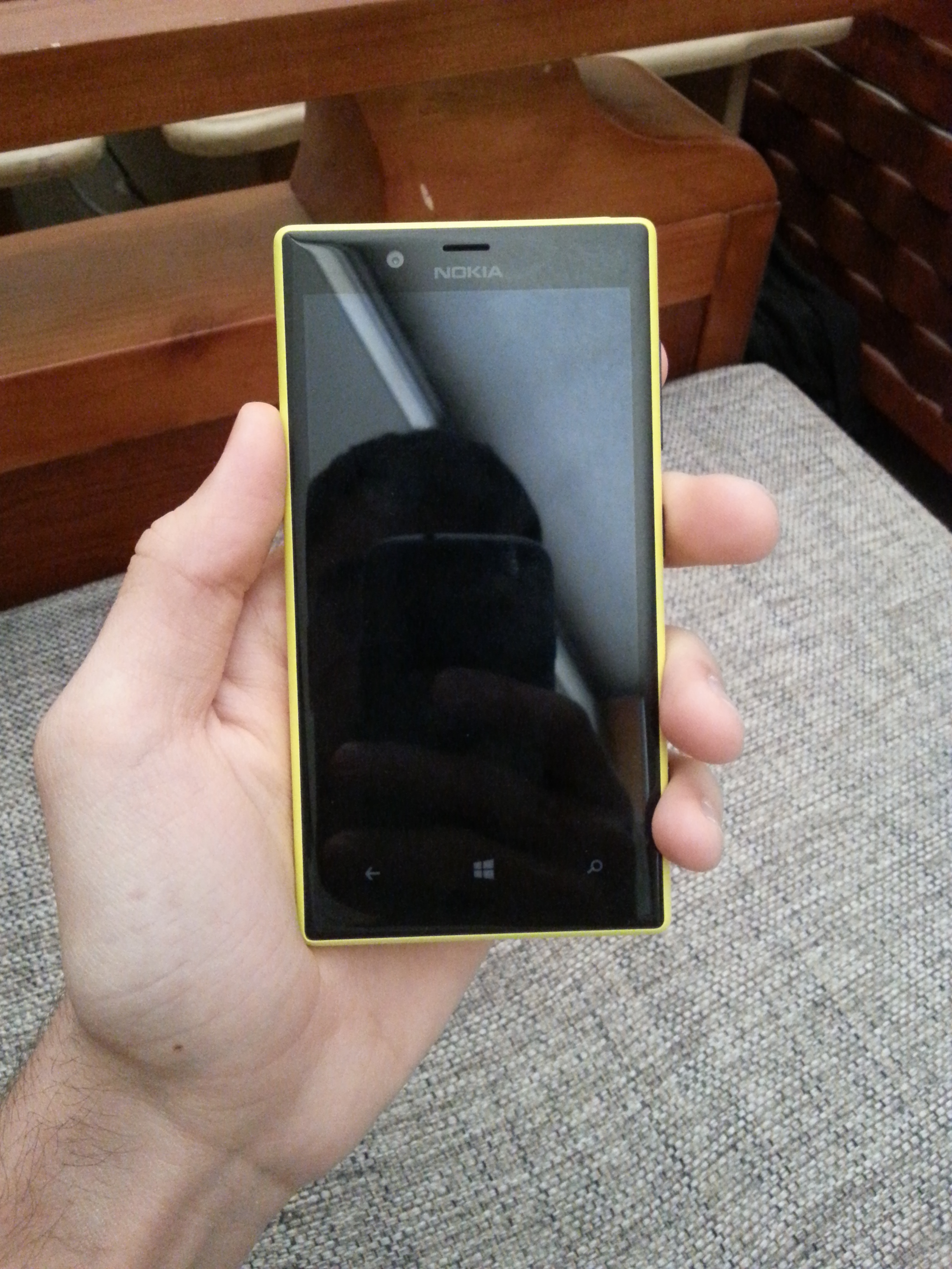 Nokia Lumia 720 Yellow Model Hands On